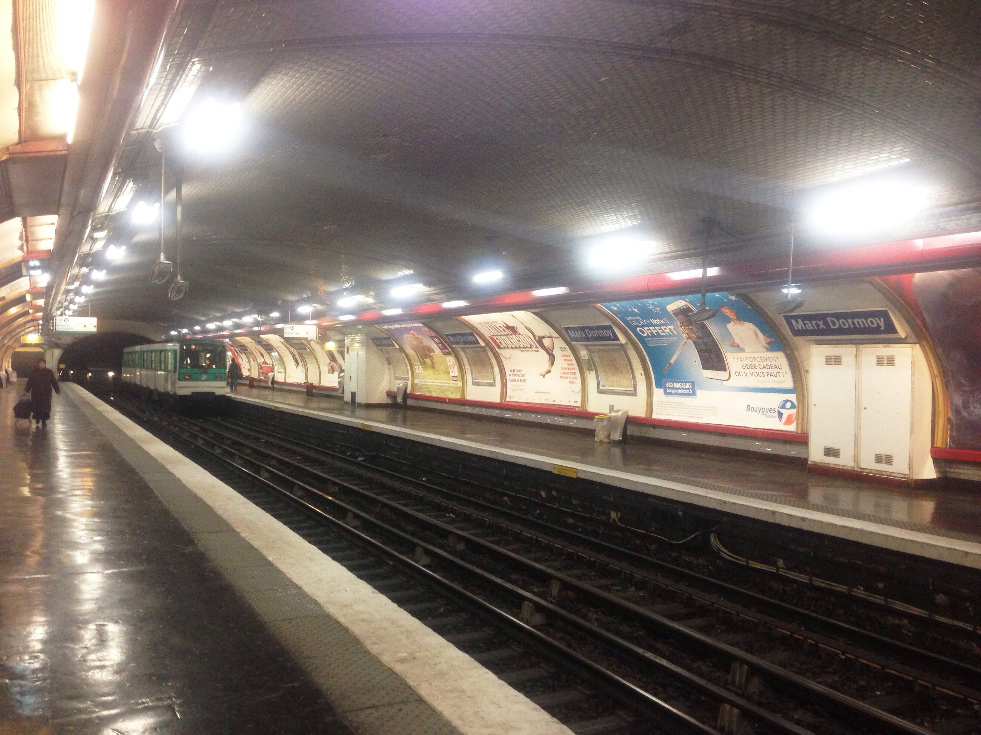 Platform of Marx Dormoy Paris metro station on line 12